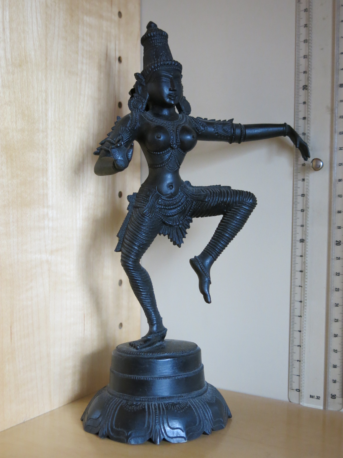 Statue of indian dancing woman. Bought in India in the 1970s